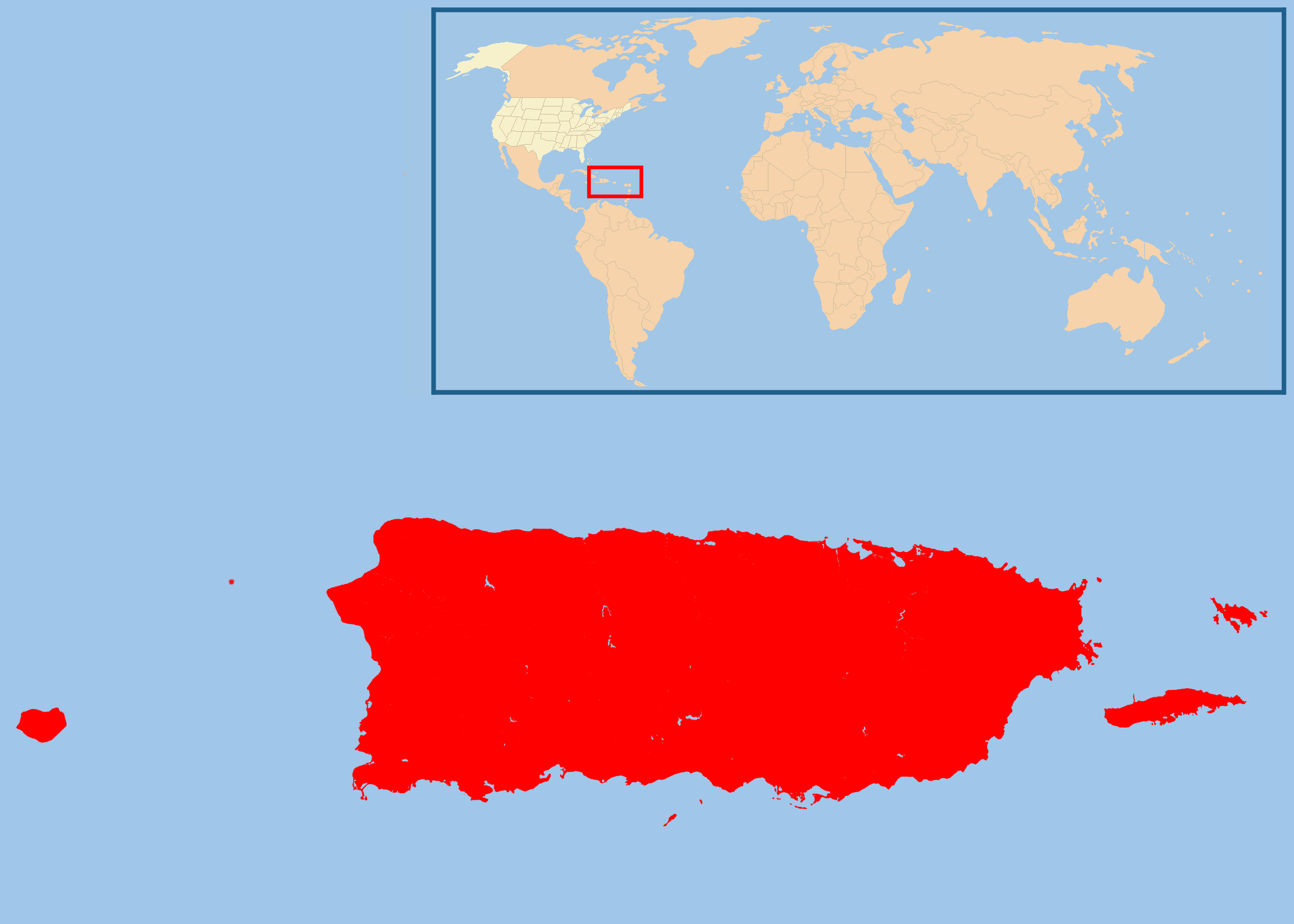 Map of USA highlight Puerto Rico